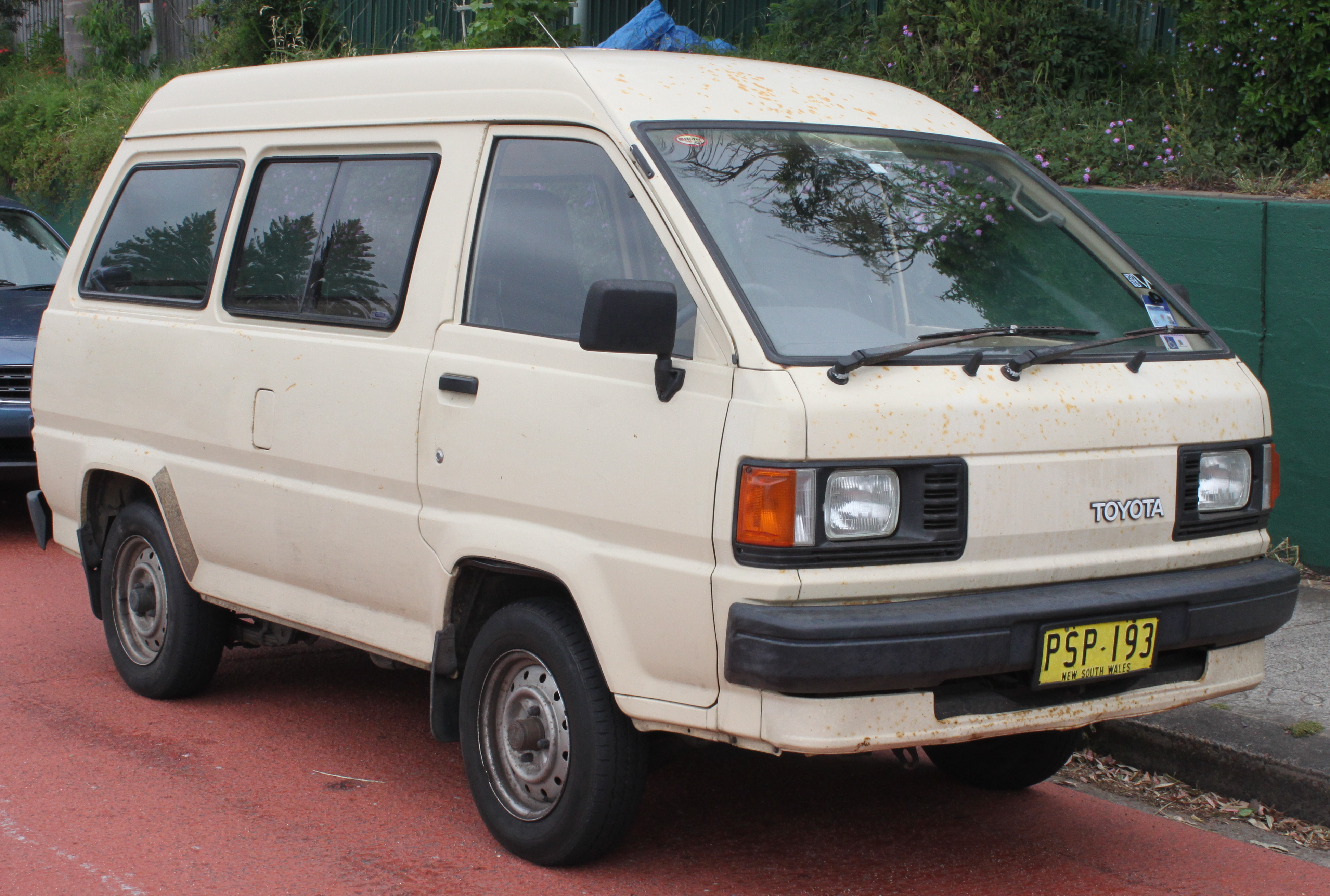 Toyota Liteace YM30 Van